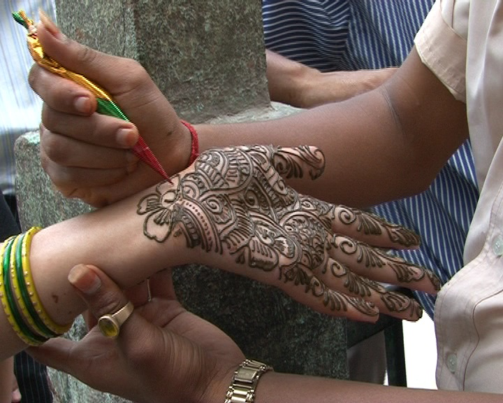 hand decoration